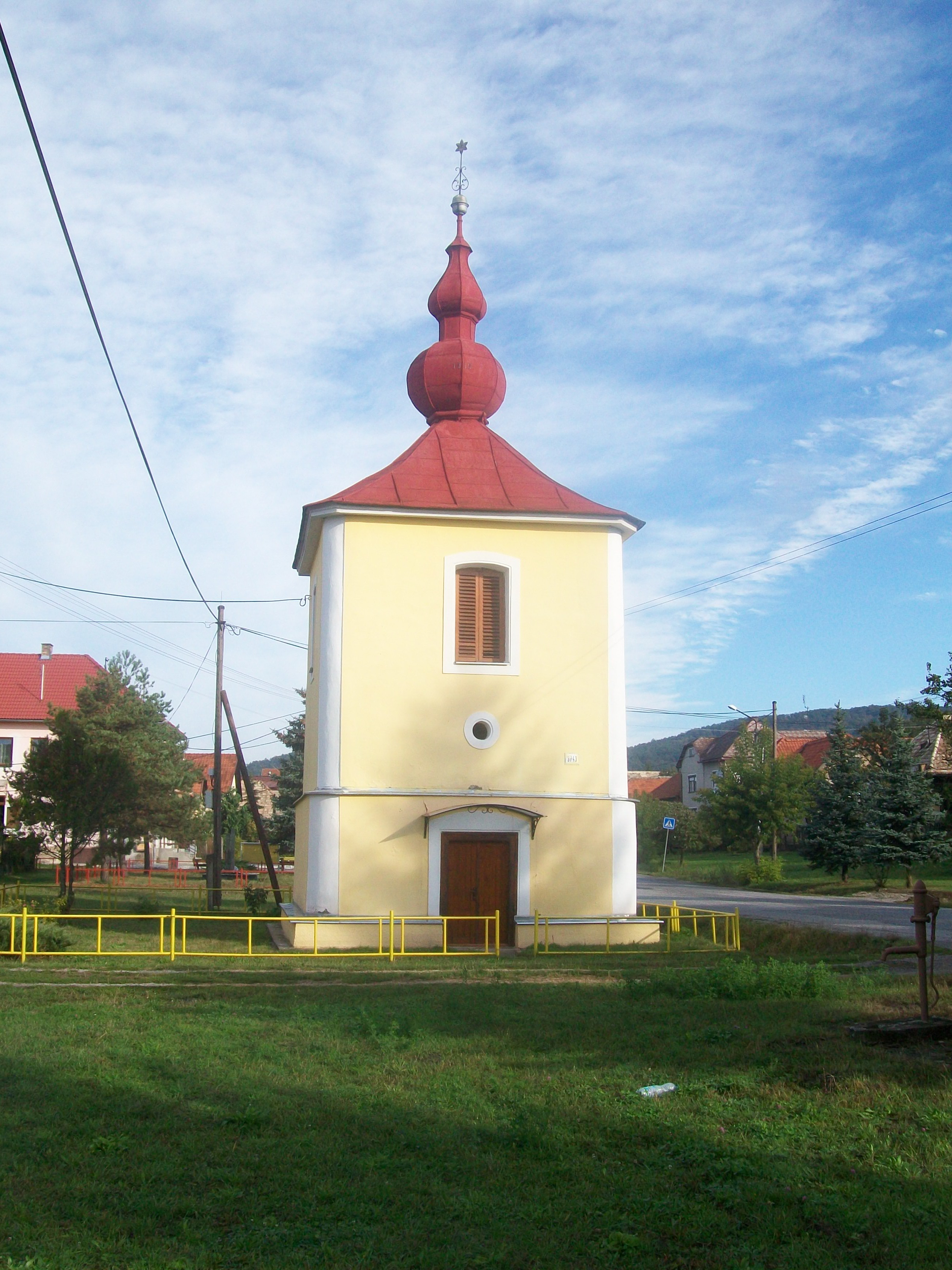 Belfry of Vyšná Pokoradz (Rimavská Sobota)